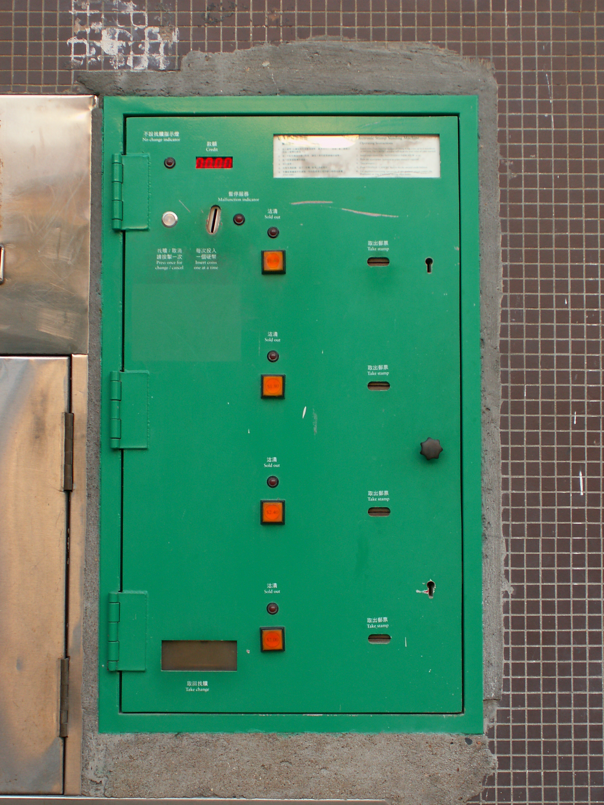 A stamp vending machine of Hongkong Post. Photo taken by Jisp Cheung on 18 Apr 2007 at Lai King Post Office.